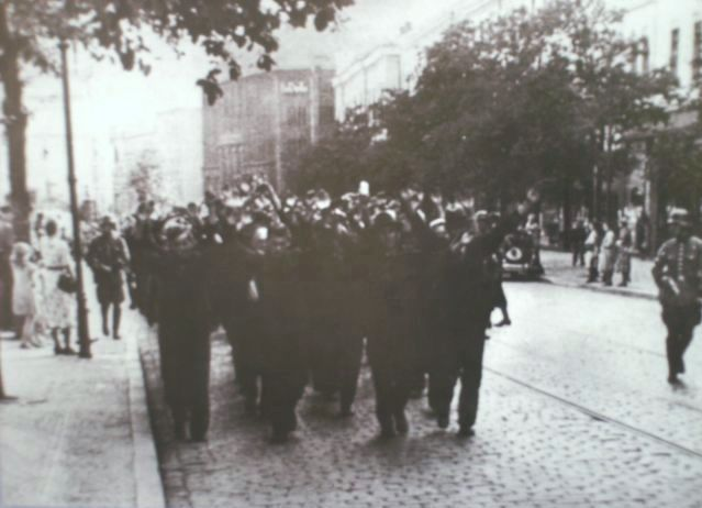 Polish civilians from Bydgoszcz arrested by German troops and led to the internment camp in the barracks of the 15th regiment of light artillery at Gdańska street. First days of September 1939.